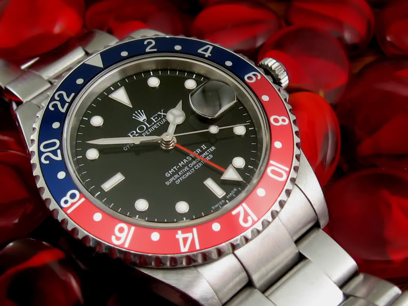 Picture of a K-Serial Rolex GMT Master II (model year 2003), ref.16710.